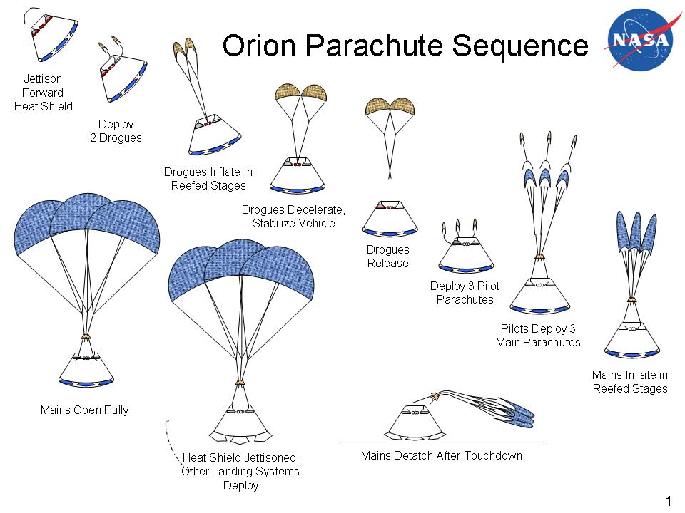 A graphic depicts the Orion Parachute Sequence.